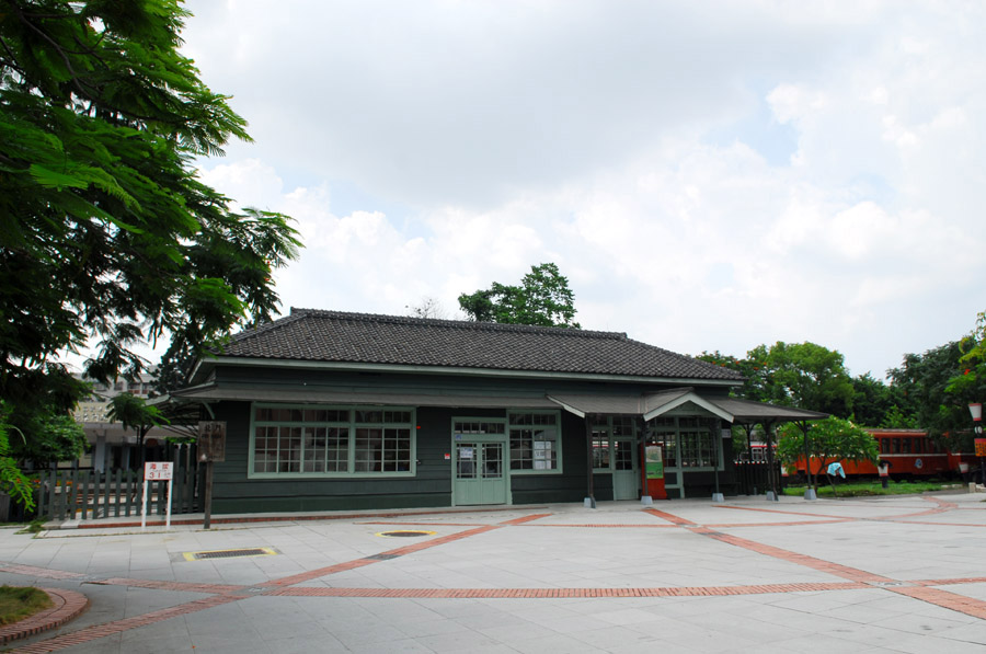 PeiMen Station is one of the train station of ALiShan Railways, a mountain railway in central Taiwan. It's the located within the boundary of ChiaYi City. This photo shows the old station building no longer be used. It was refurbished and has been appointed as a local heritage site.